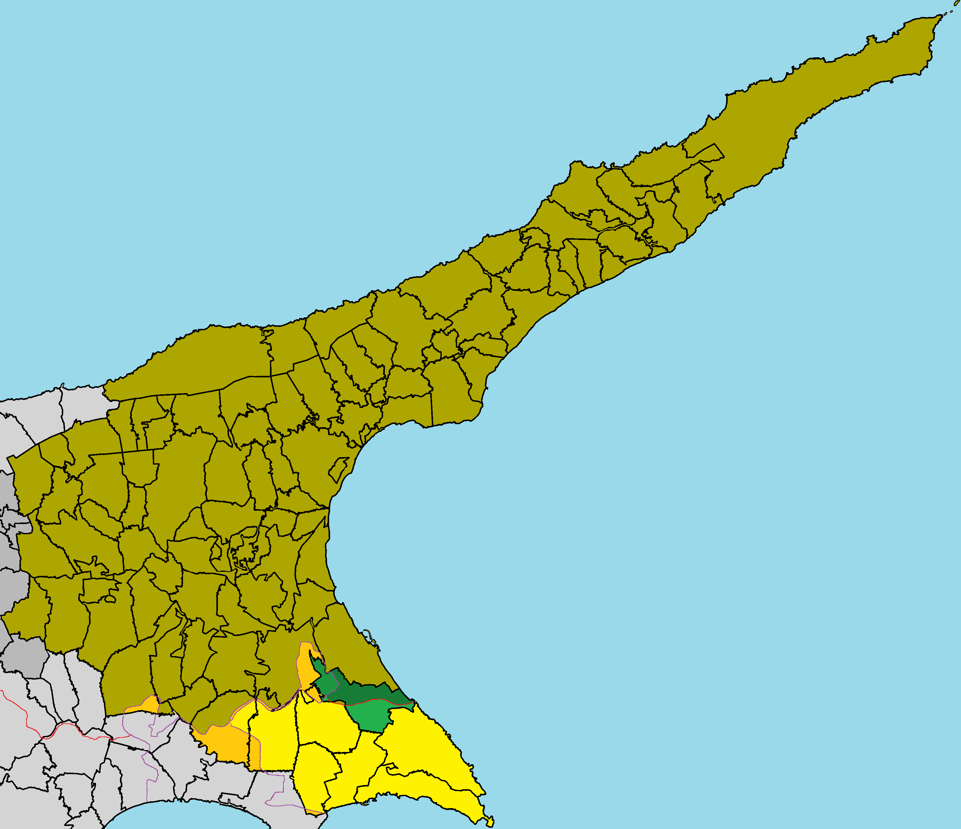 Deryneia in Famagusta District.